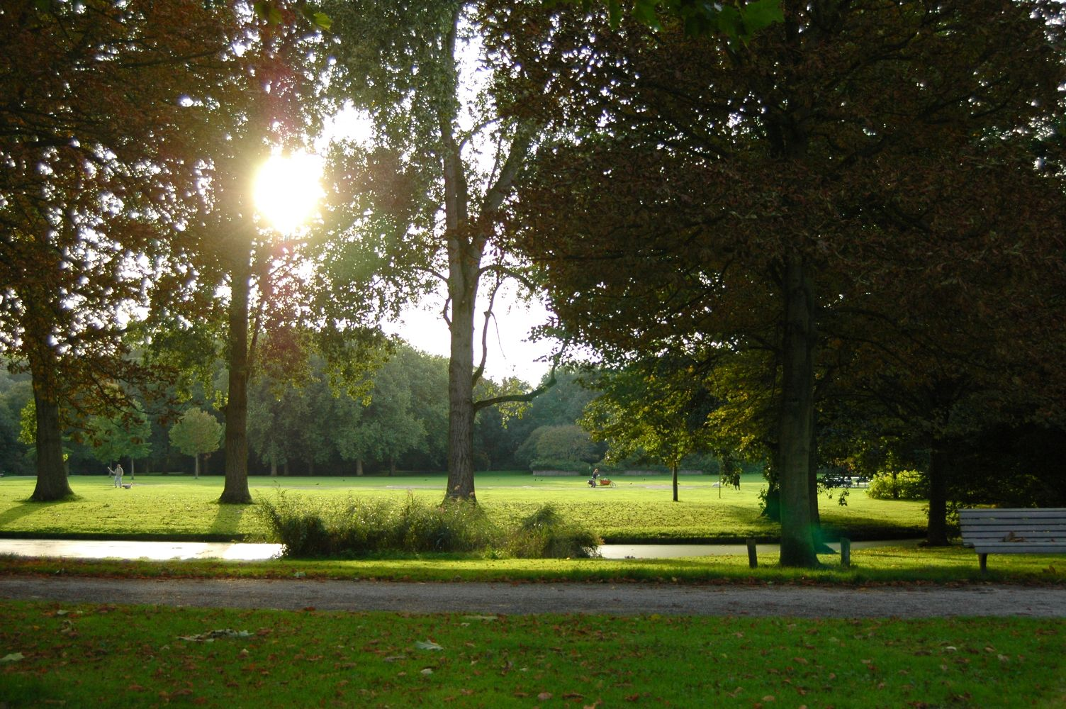 Beatrixpark